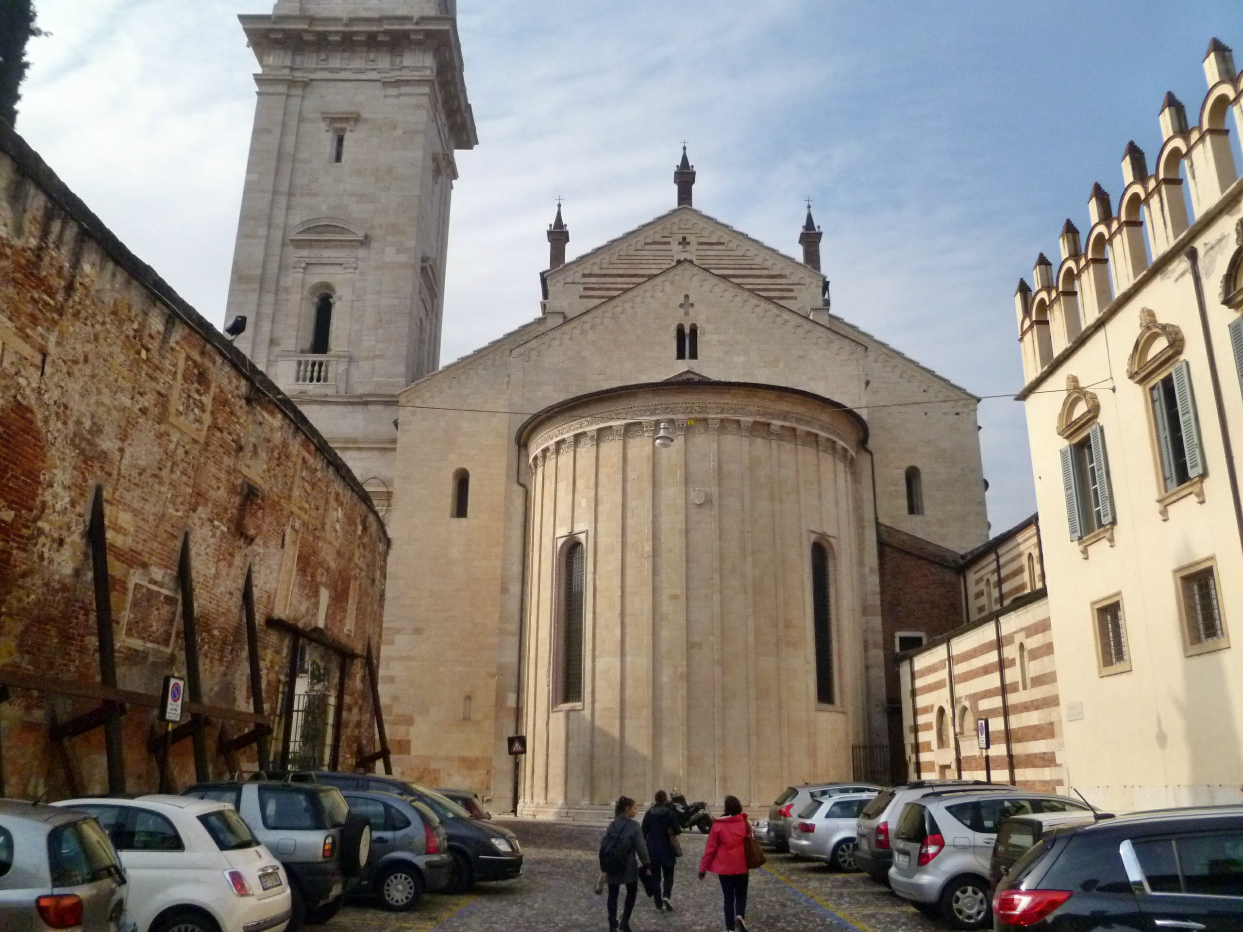 Cathedral of Verona, Italy